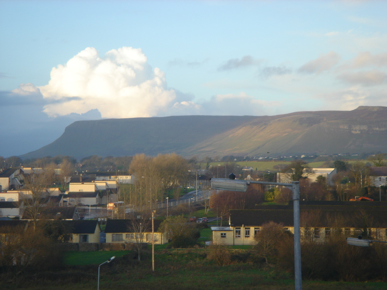 Benbulben, County Sligo, as seen from Sligo town